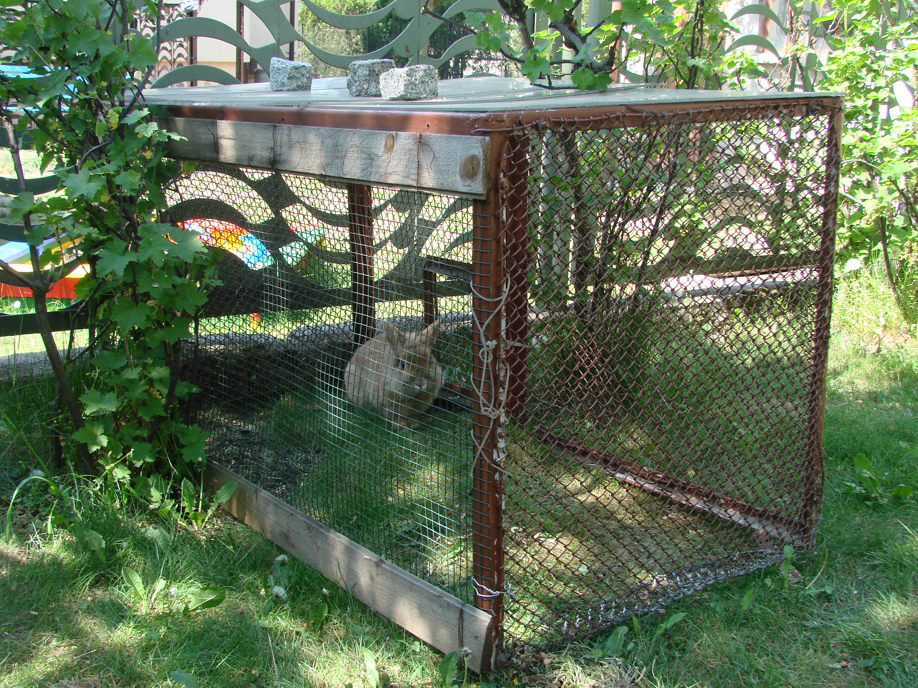 Rabbit cage in garden (outside), Poland